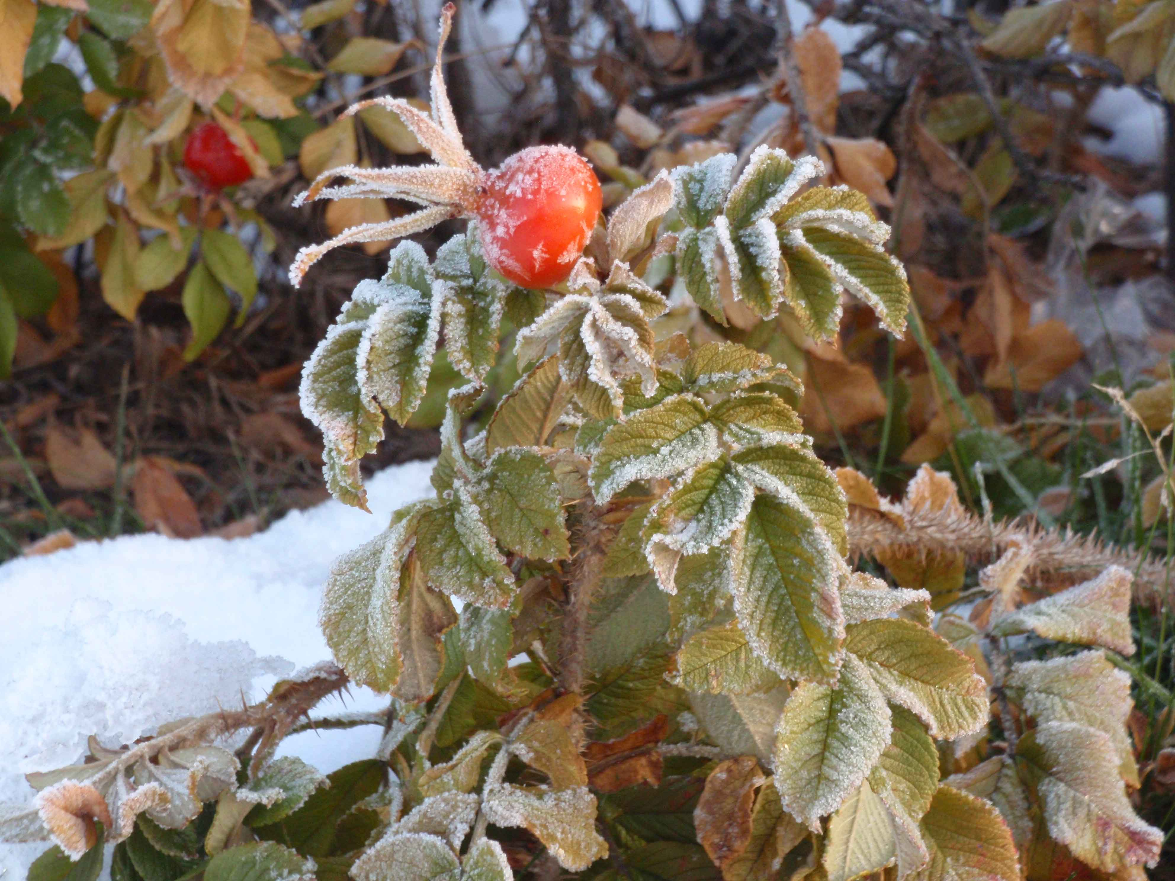 Icy Rosa rugosa.